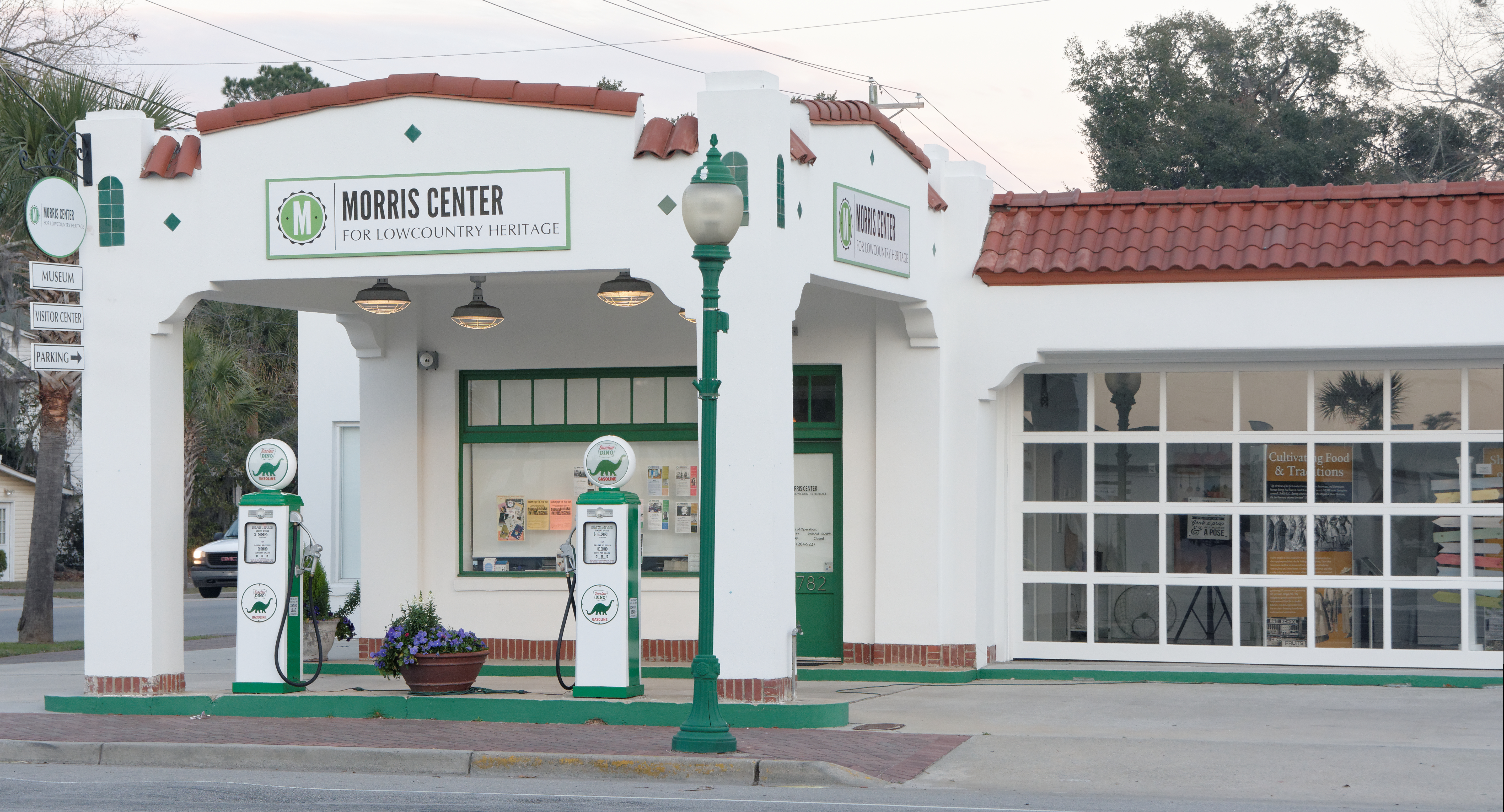 Sinclair Service Station, Ridgeland, South Carolina, U.S. Restored and houses the Morris Center for Lowcountry Herratige.